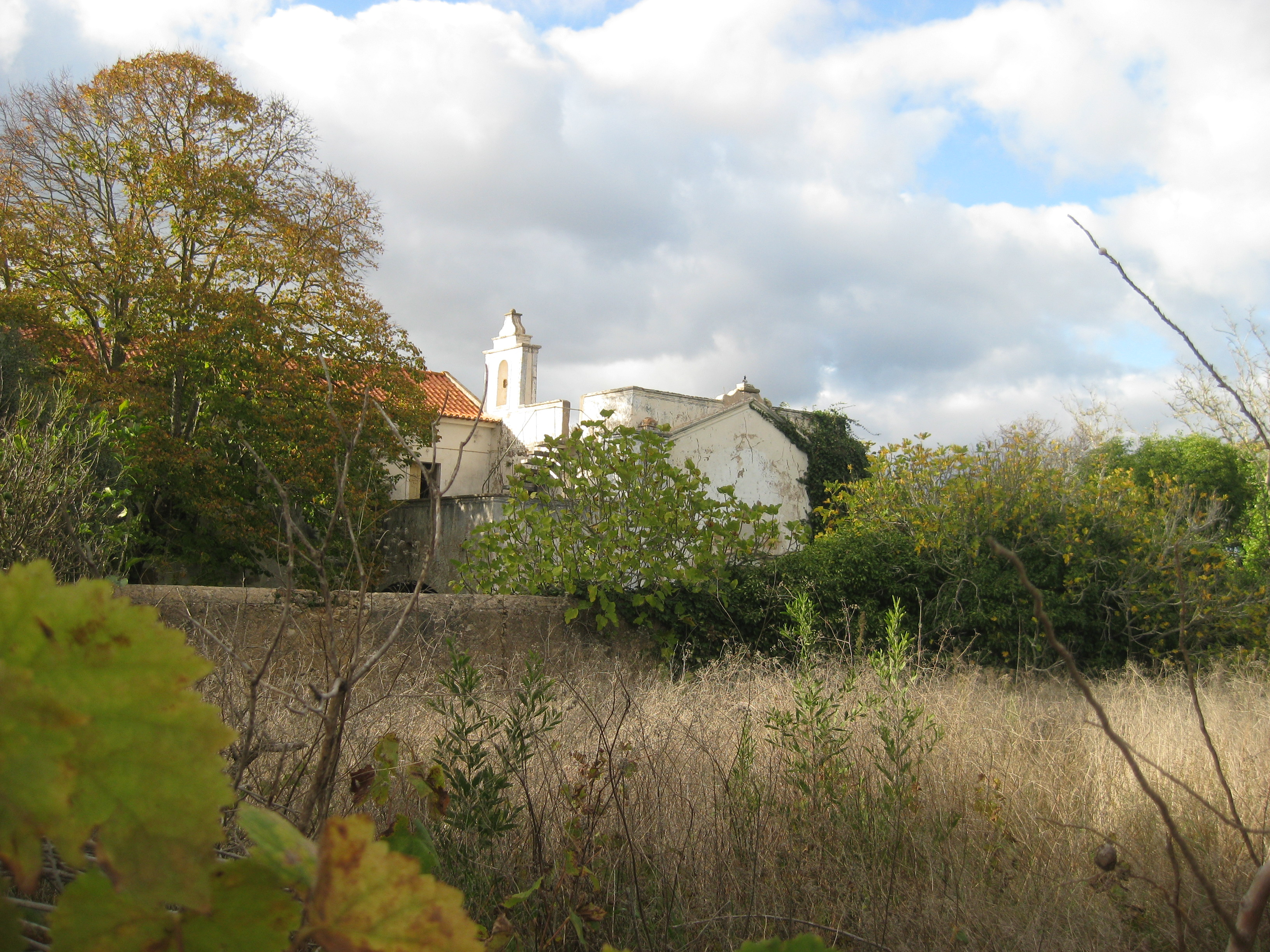 View of the old convent of Nossa Senhora do Carmo (Lagoa)